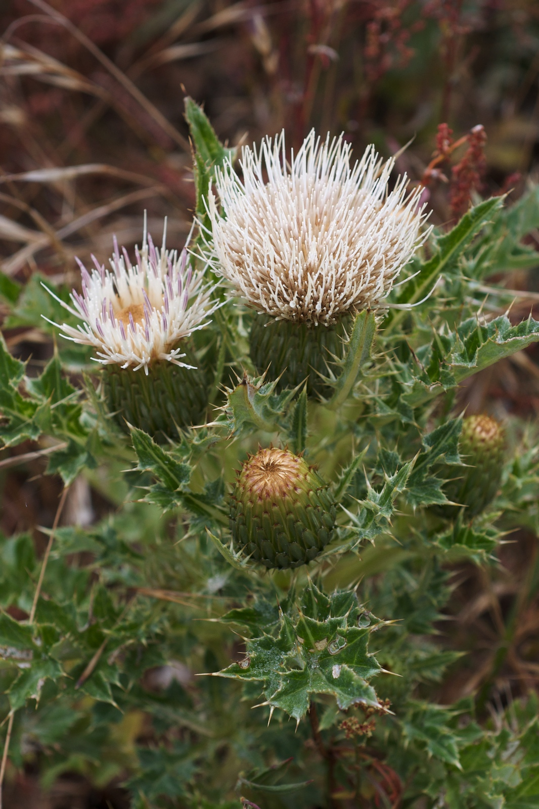 Cirsium quercetorum — Brownie thistle, Alameda thistle. Native thistle photographed at Abbott's Lagoon, Point Reyes National Seashore, Marin County, California.